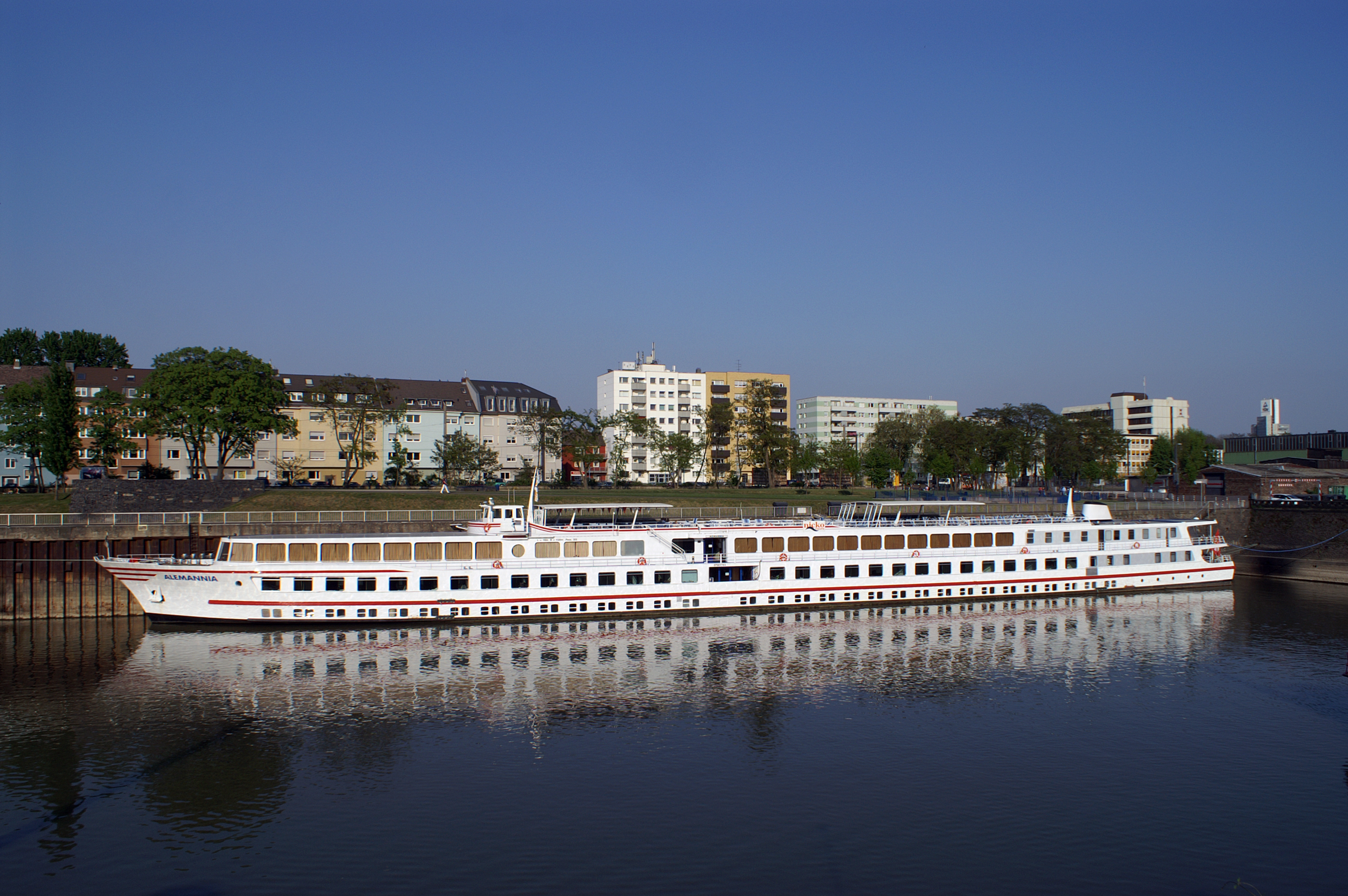 River cruise ship Alemannia in the port of Cologne-Deutz.